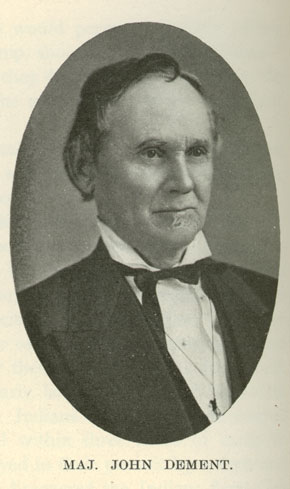 Major John Dement, commander during the second, and more intense, Battle of Kellogg's Grove during the Black Hawk War in June 1832.